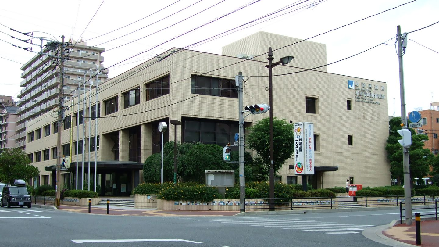 Jonan Ward office, Fukuoka City, Japan